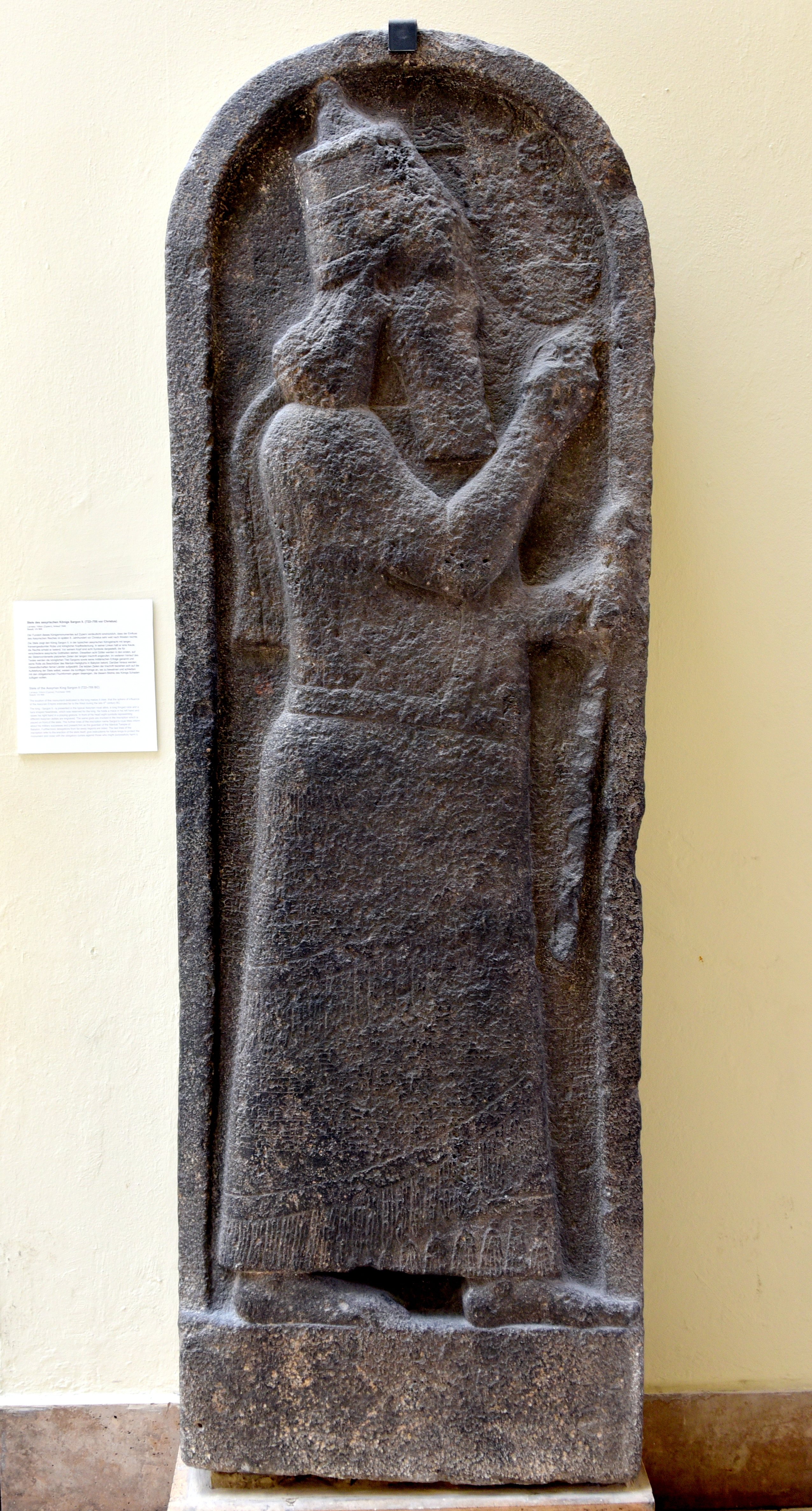 Basalt stela of the Assyrian king Sargon II (r. 722-705 BCE) from Kition, Larnaca, Cyprus. Late 8th century BCE. Pergamon Museum, Berlin, Germany.